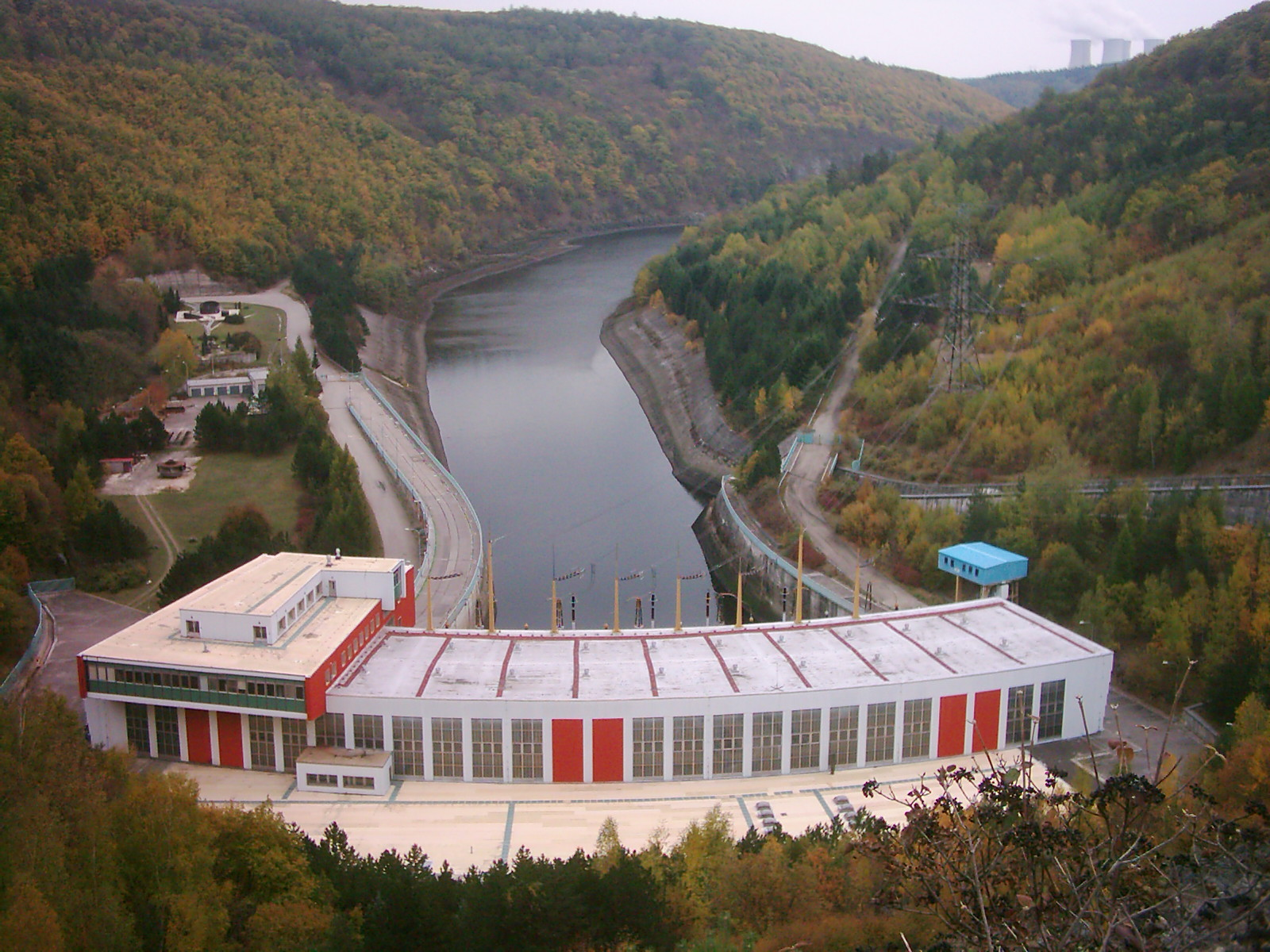 Dam of Dalšece waterwork with pumped-storage hydroelectric power station